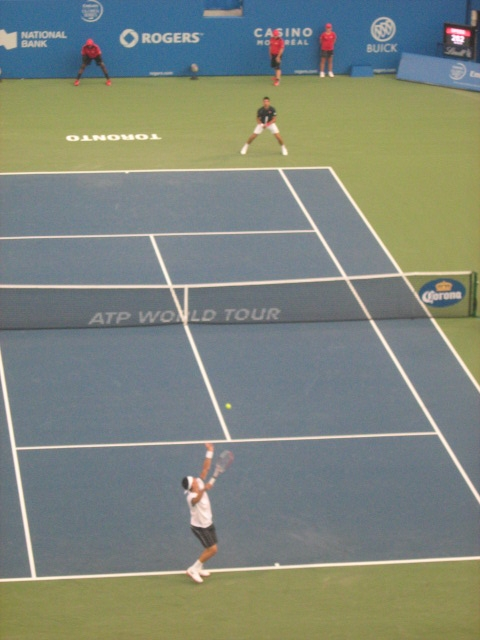 Rogers Cup Toronto, 2012. Serbian Novak Đoković against Australian Bernard Tomić